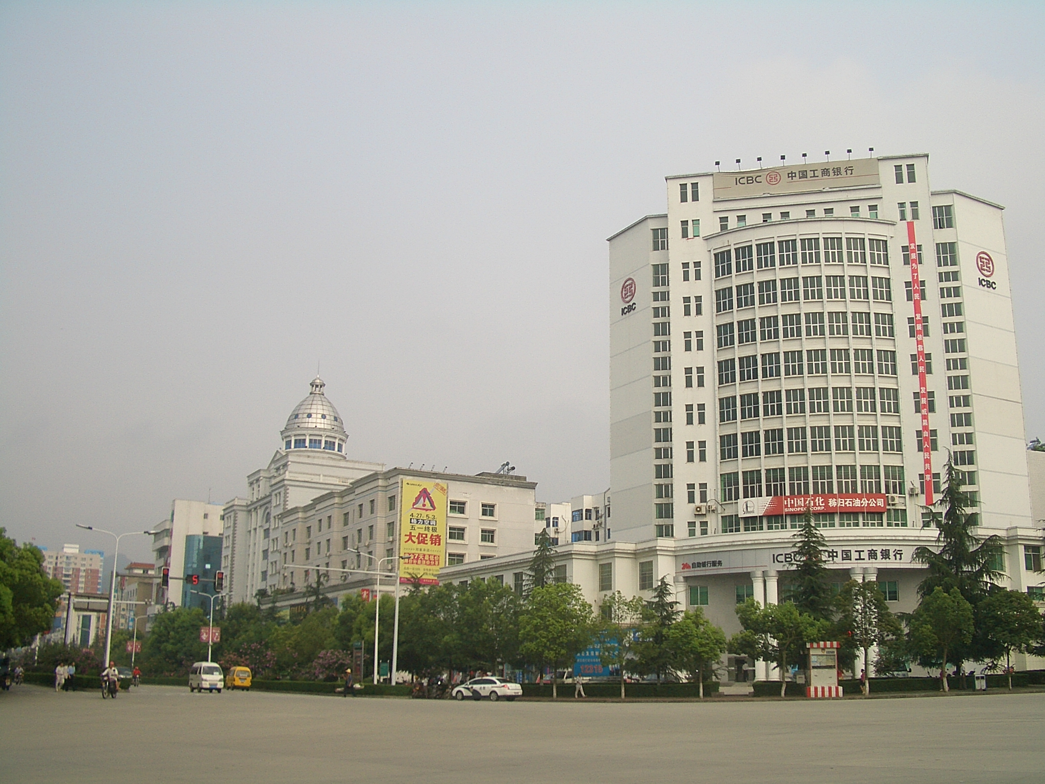 In downtown Maoping Zhen, the county seat of Zigui County, Hubei